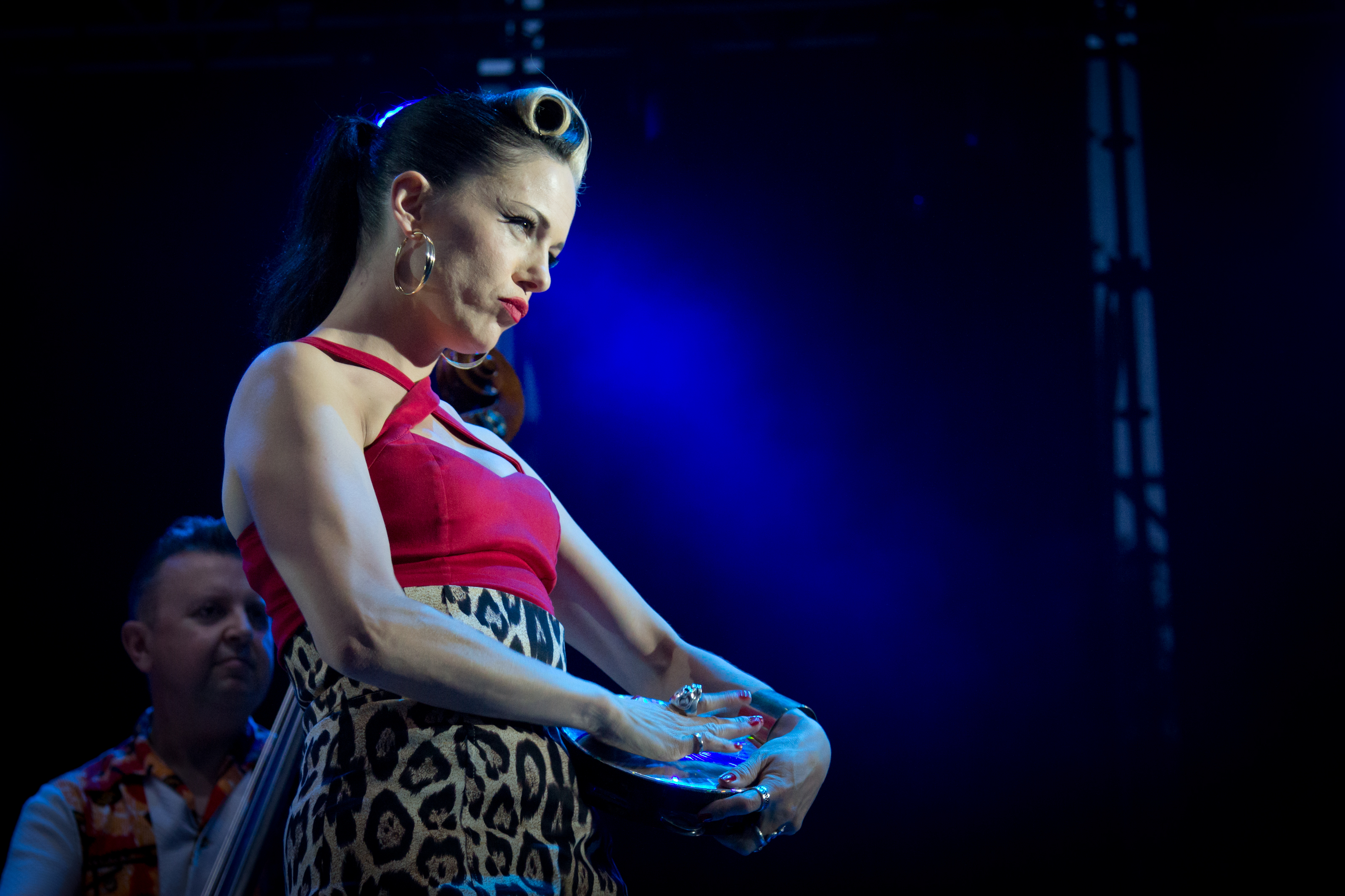 Imelda May at Madgarden Fest 2015, Madrid, Spain.